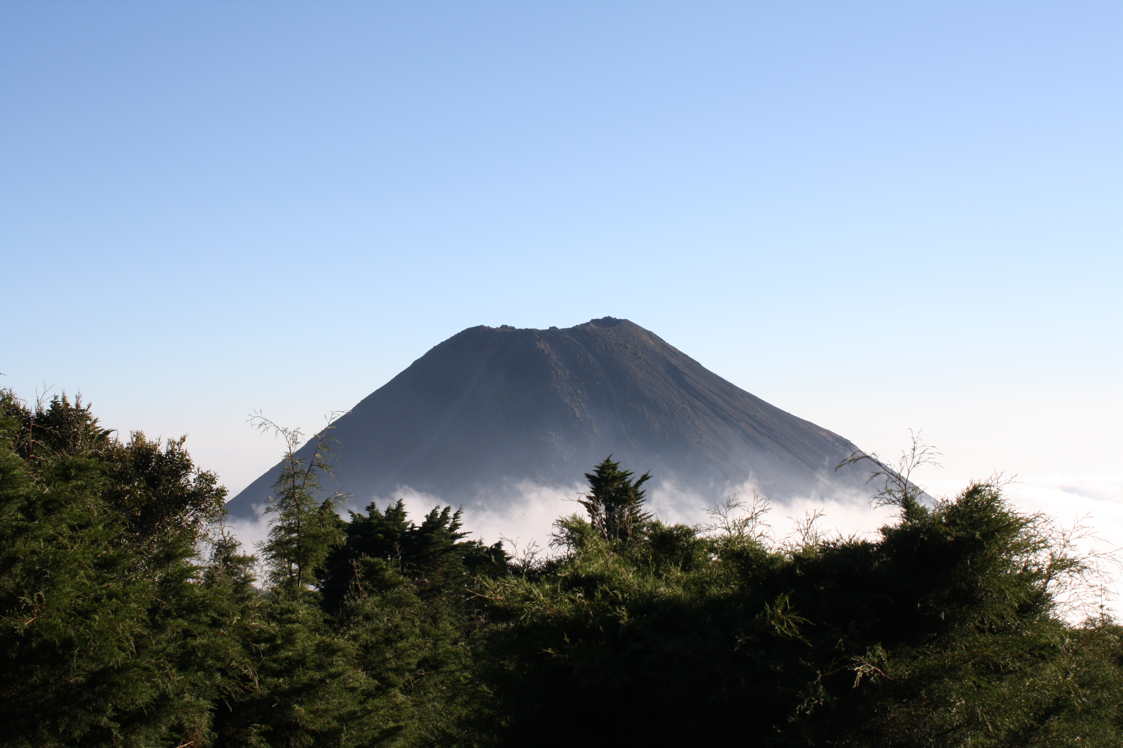 El Salvador: Ecotourism - The Izalco Volcano Site: The Izalco Volcano, partially covered by clouds, is a natural draw for tourists.